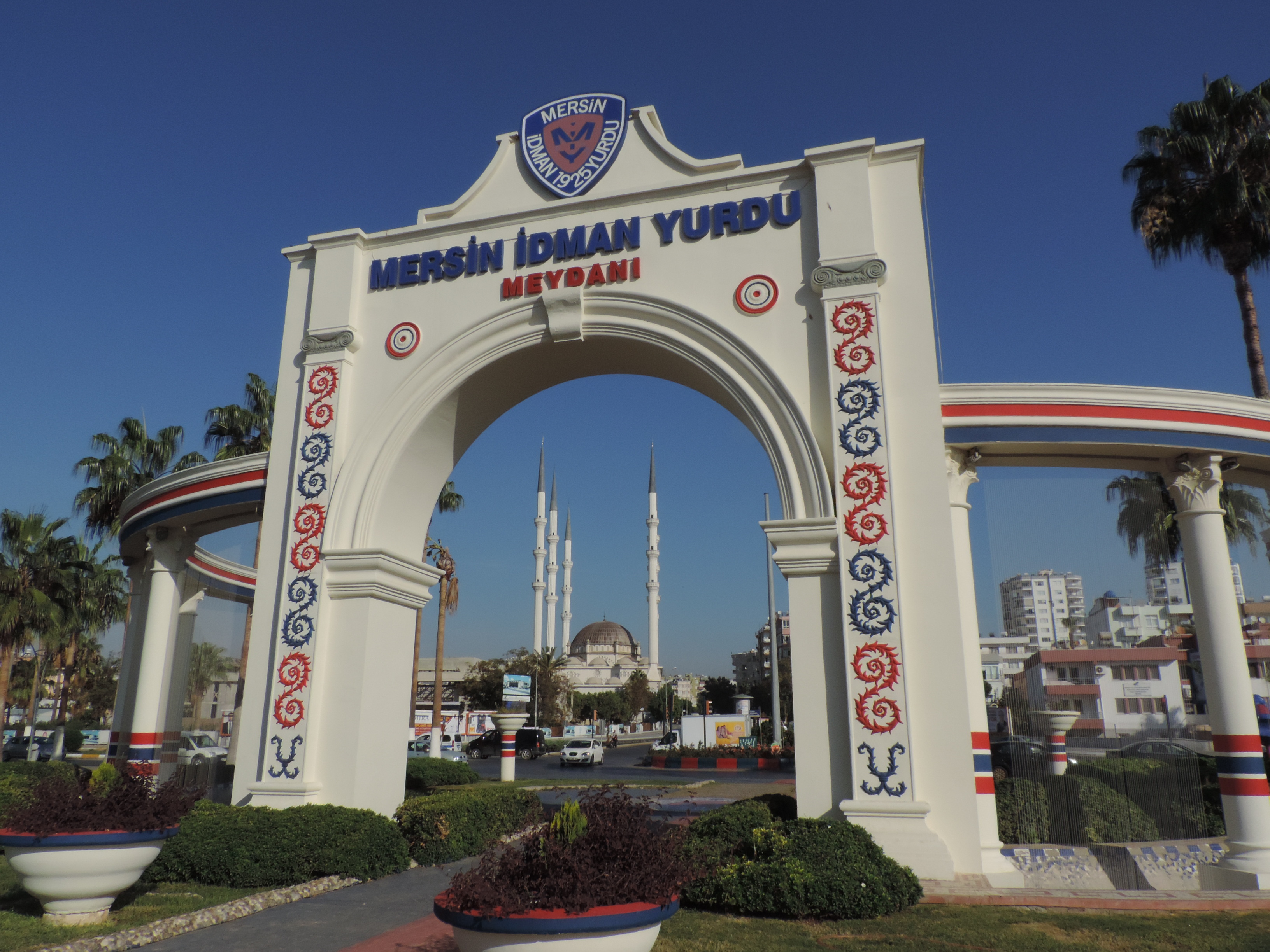 Mersin İdman Yurdu Meydanı and Muğdat Mosque